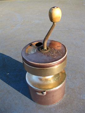 A coffee grinder